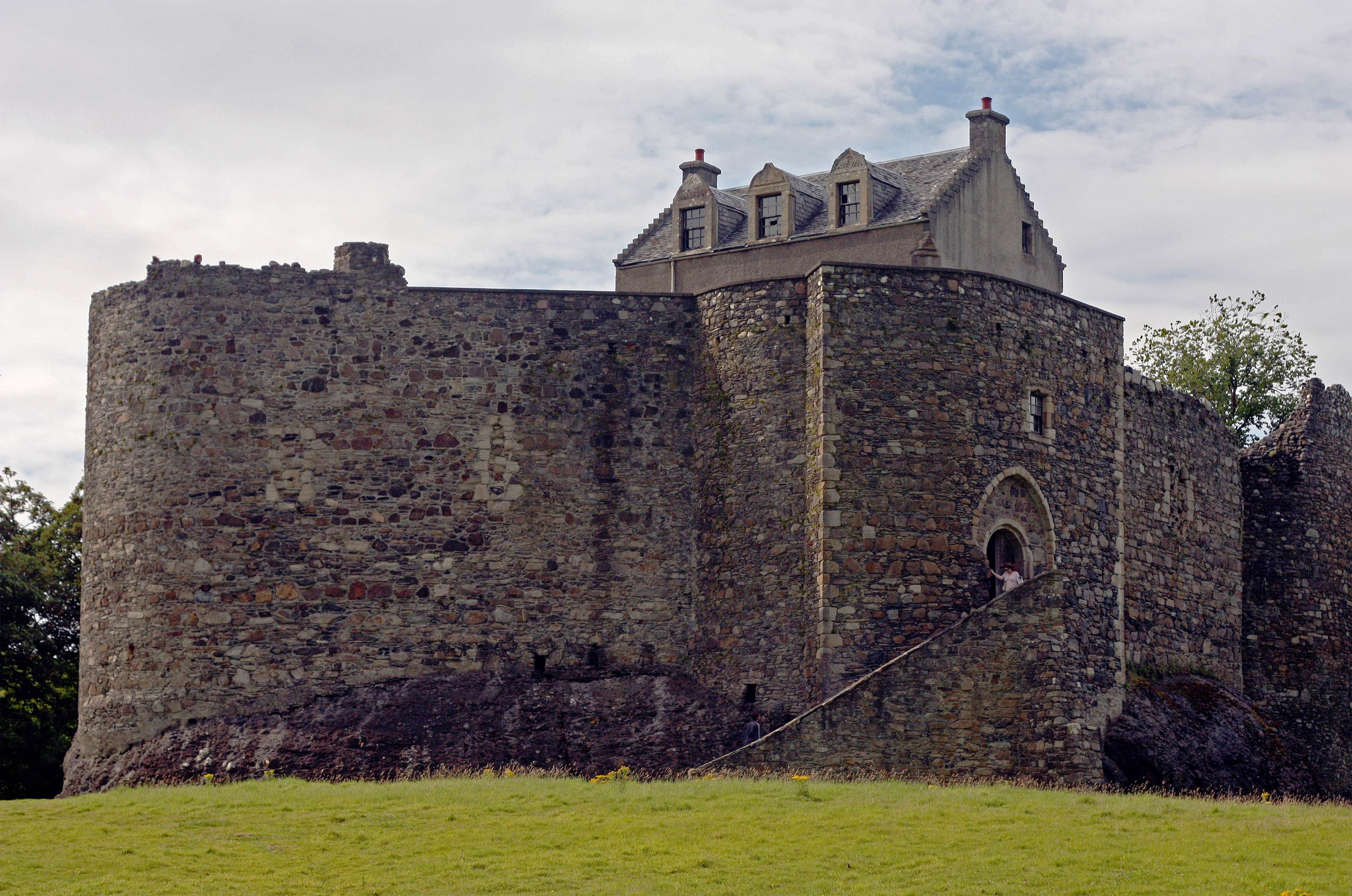 Dunstaffnage castle, in Scotland (United Kingdom).